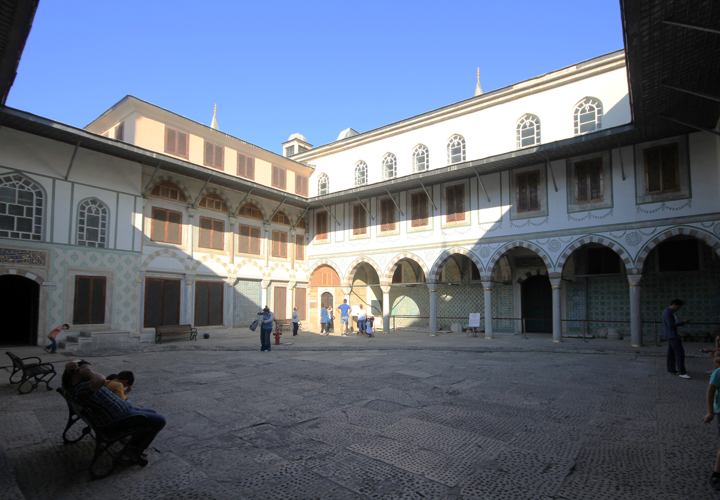 Countyard in Apartments of the Queen Mother in Harem of Topkapı Palace in Istanbul, Turkey